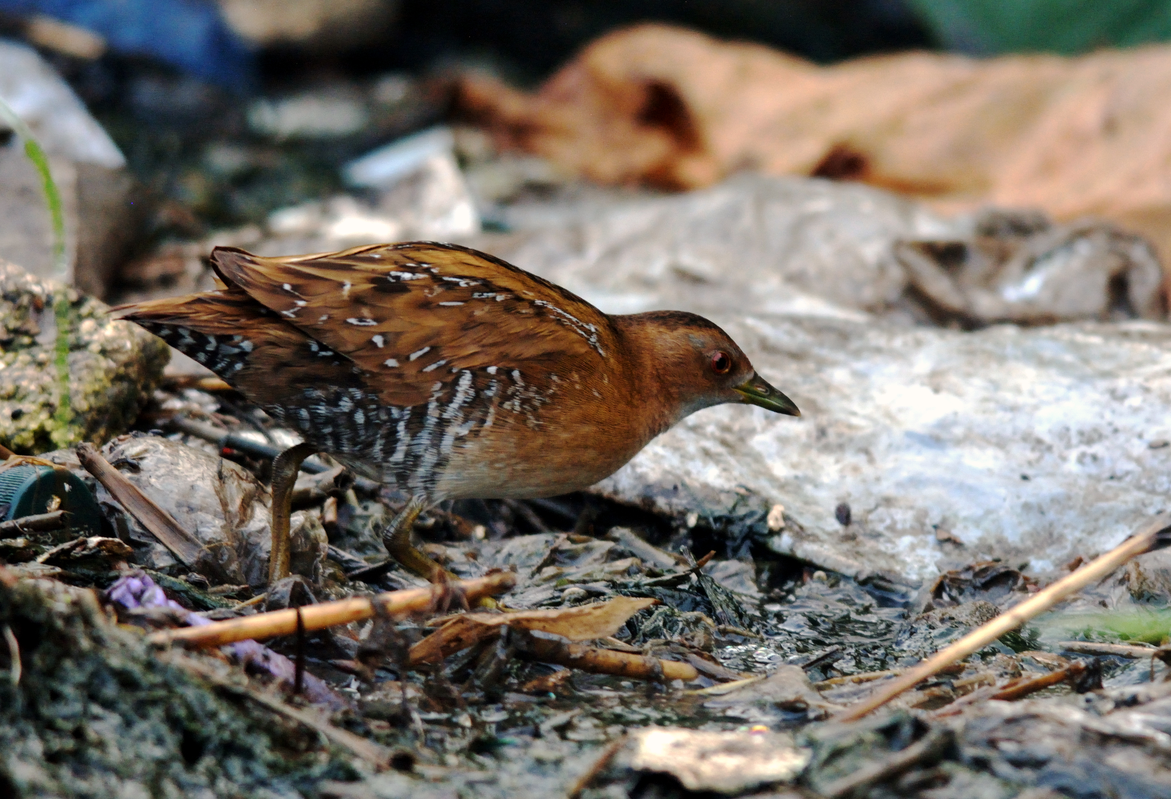 Baillon's Crake Porzana pusilla. Photo taken by Dr. Raju Kasambe near Dombivli, dist. Thane, Maharashtra, India